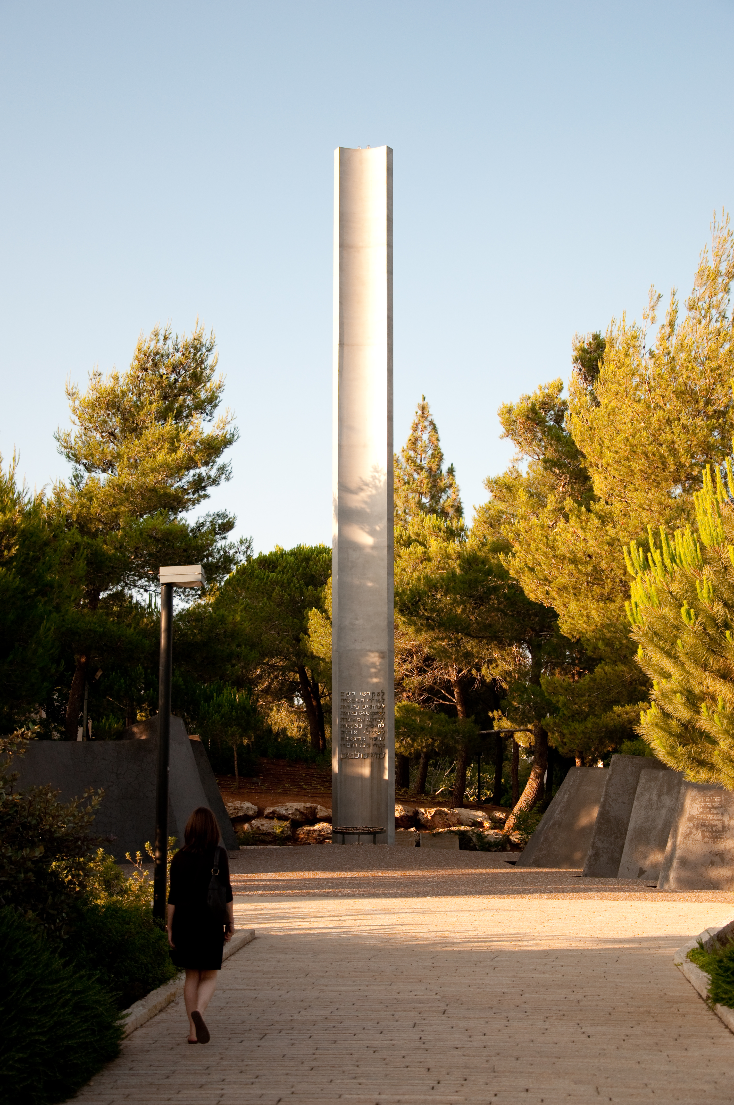 Yad Vashem Tribute to the Righteous Among the Nations Yad Vashem